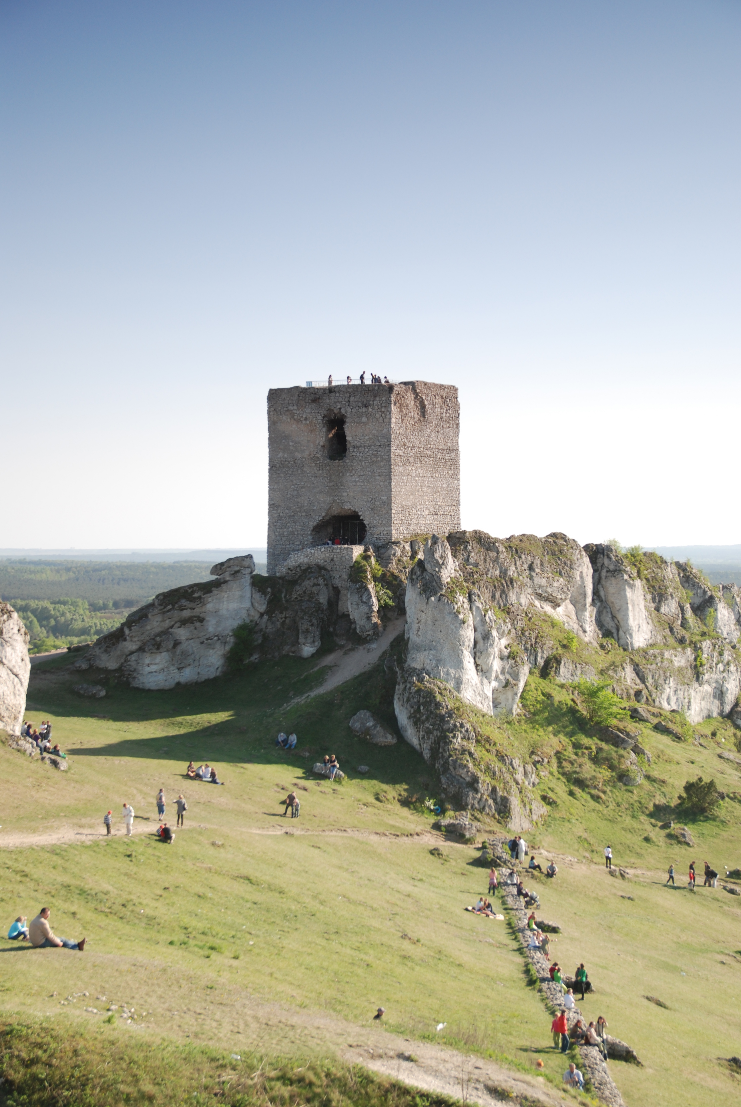 Olsztyn Castle near Czestochowa, Poland, Staroscinska Tower - a view from the upper castle